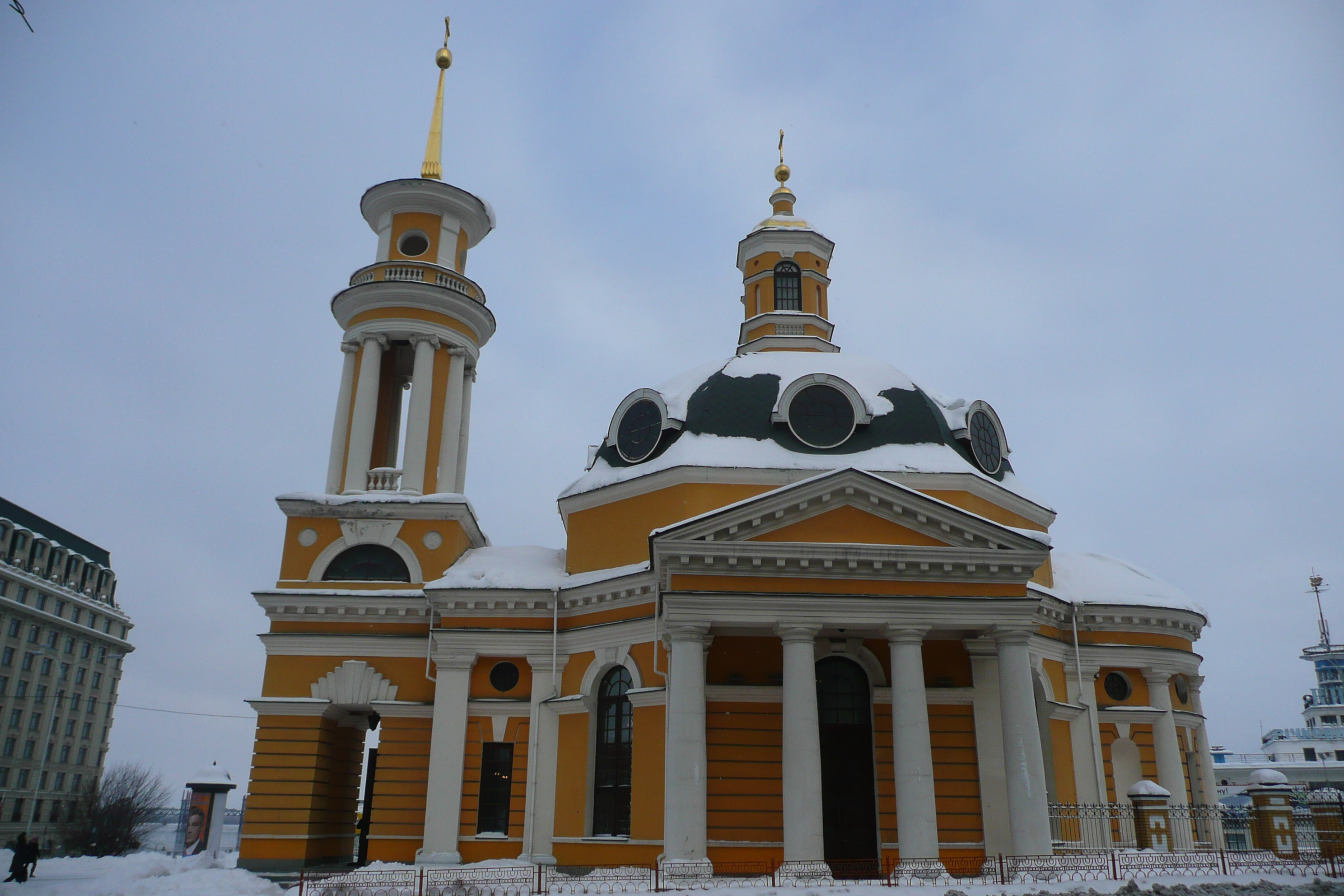 Kiev